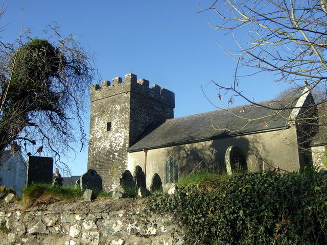 Eglwys Treamlod Ambleston church is mediaeval in origin and stands within a raised graveyard at the centre of the village. The sturdy four-square tower has battlements.